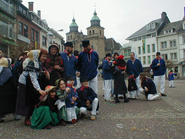 participants to the carnival of Malmedy in 2004, in traditional "bleu sårot" dress, with the cathedral on the background. Walon: cwarmeus e bleu sårot å Cwarmea d' Måmdey, avou l' catedråle padrî (portrait saetchî pa L. Mahin).